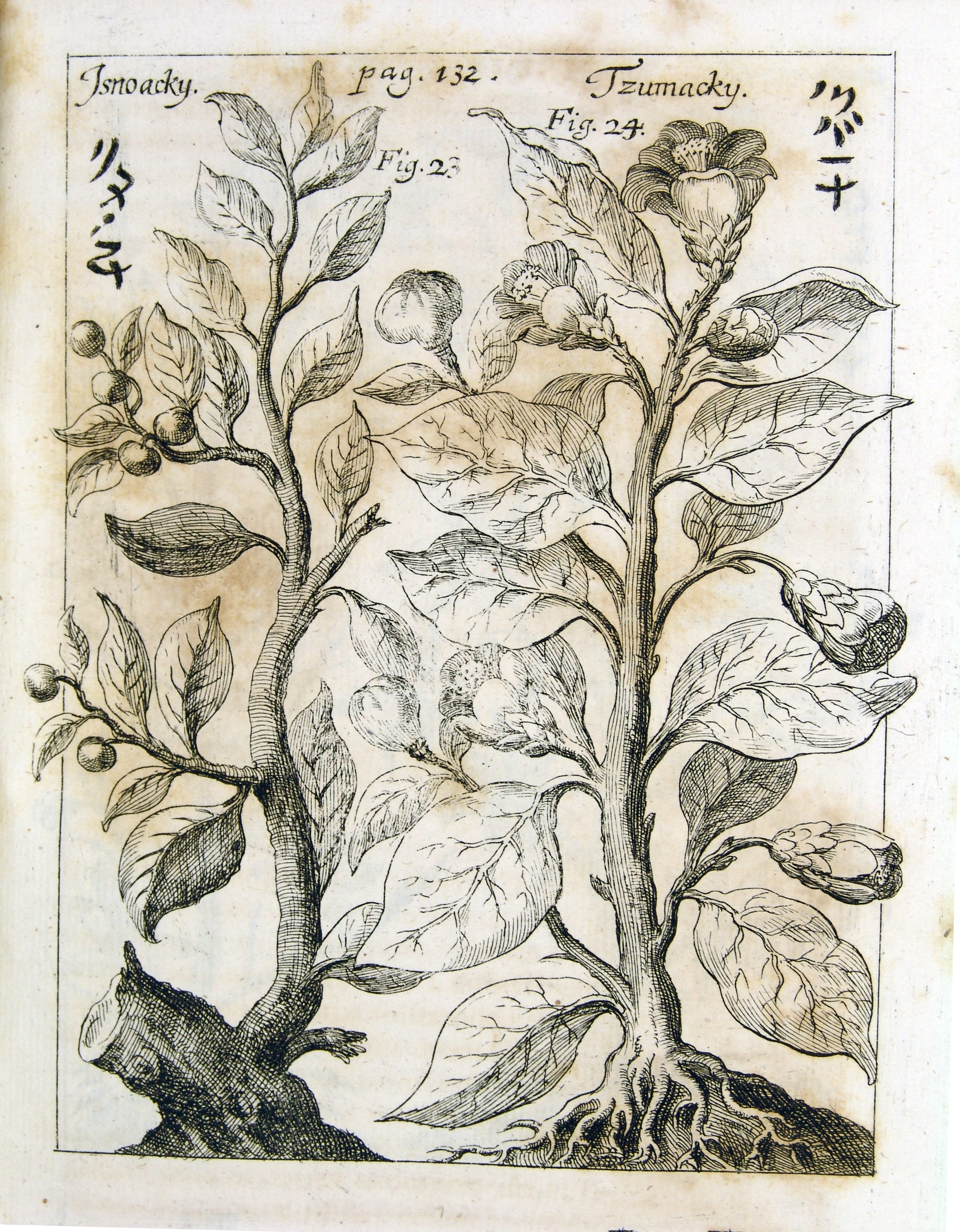 Observation on Japanese plants (tsubaki = Camellia and isunoki = Distylium racemosum) published by Andreas Cleyer in 1689 under the title „ De Plantis Japanensibus Isnoacky, Germ. Eyserholz / & Tsumacky“ in the journal of the German Academy of Sciences Leopoldina (Miscellanea Curiosa, Decuria II, Annus VII = 1689)